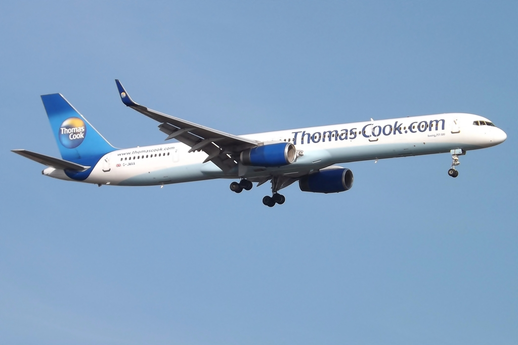 G-JMAA Boeing 757-300 Thomas Cook landing Glasgow